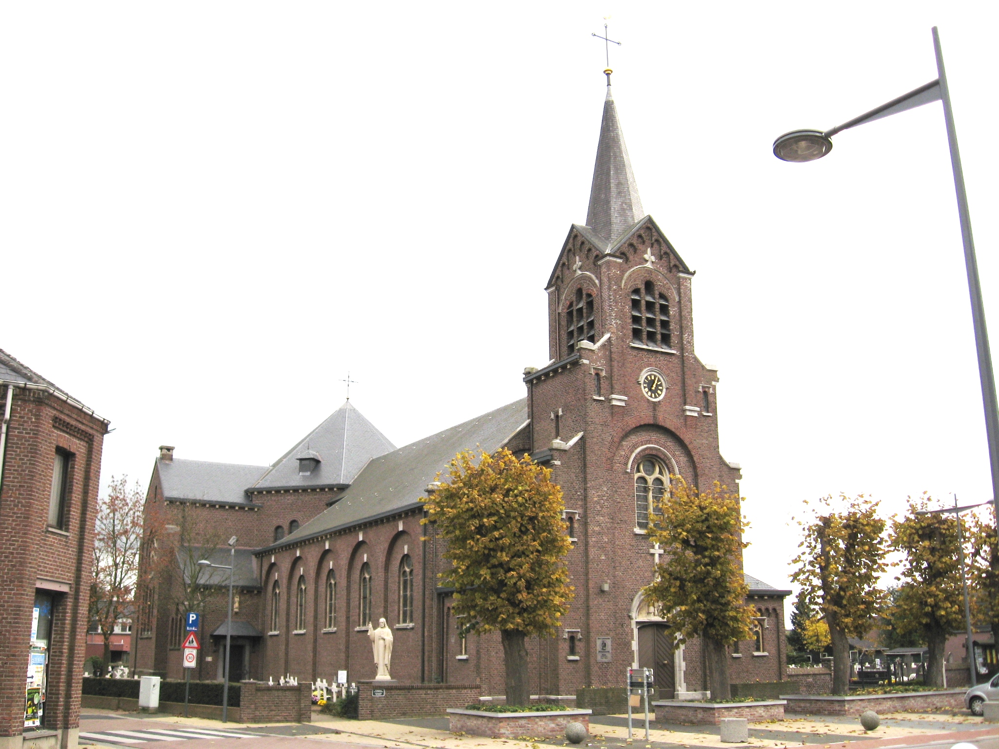 Church of Saint Leonard in Molenbeersel, Kinrooi, Limburg, Belgium